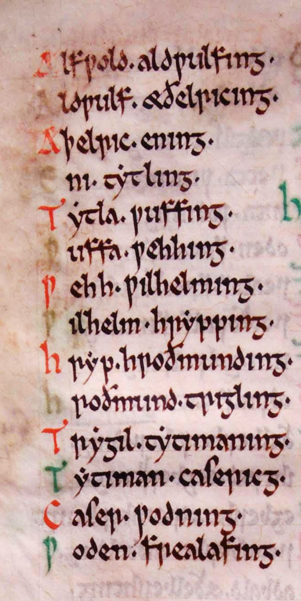 Part of a 12th century manuscript, the 'Textus Roffensis', now kept in Strood at Medway Archives, showing the East Anglian genealogical tally (from Woden to 'Alfwold'). The text can be read using